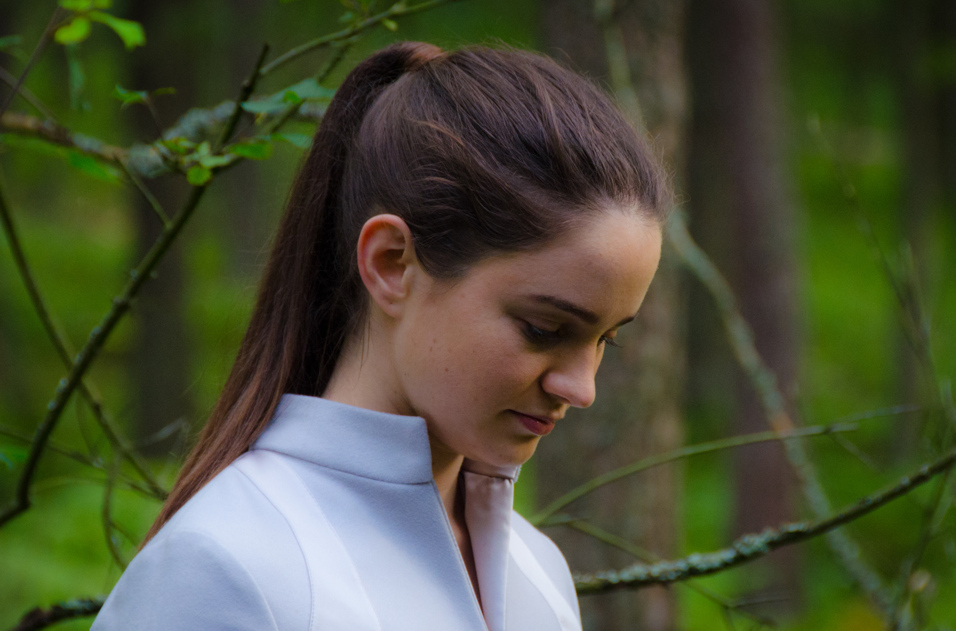 Taken on set during the live shoot for "Ambition – Epilogue", a science-fiction short made to promote the Rosetta mission, a collaboration between the European Space Agency and Platige Image / Fish Ladder, and as a sequel to 2014's award-winning "Ambition". The film, directed by Maciek Jackiewicz & produced by Marta Staniszewska & Jan Pomierny, stars Aisling Franciosi (The Fall, Game of Thrones), was shot on August 18, 2016, in the Kampinos National Park to the west of Warsaw, Poland, and also in the Royal Łazienki Palace in Warsaw. The film was released on September 28, 2016, two days before the Rosetta mission ended its operational phase, making a controlled impact on Comet 67P/Churyumov-Gerasimenko. It can be seen at while the original 2014 "Ambition" film can be seen at Full credits for the film are given on the YouTube link. Further information on the Rosetta mission can be found at This picture is available under a CC-BY SA licence, so that it can be used on Wikipedia.